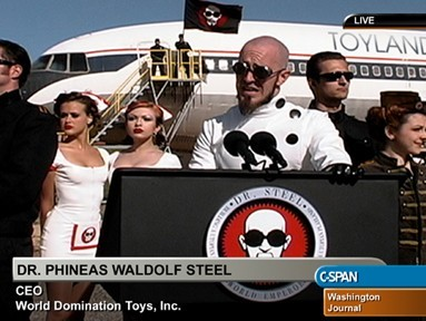 Screencap from Dr. Steel's "Propaganda DVD", showing a faux press conference